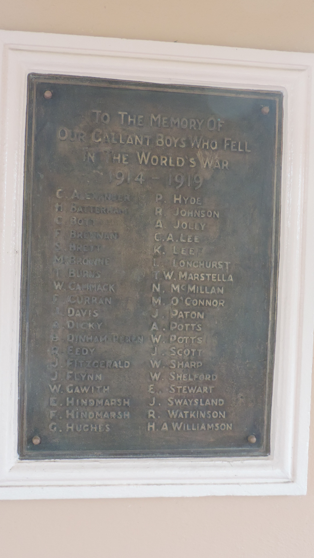 Plaques listing names, Stanthorpe Soldiers Memorial, 2015